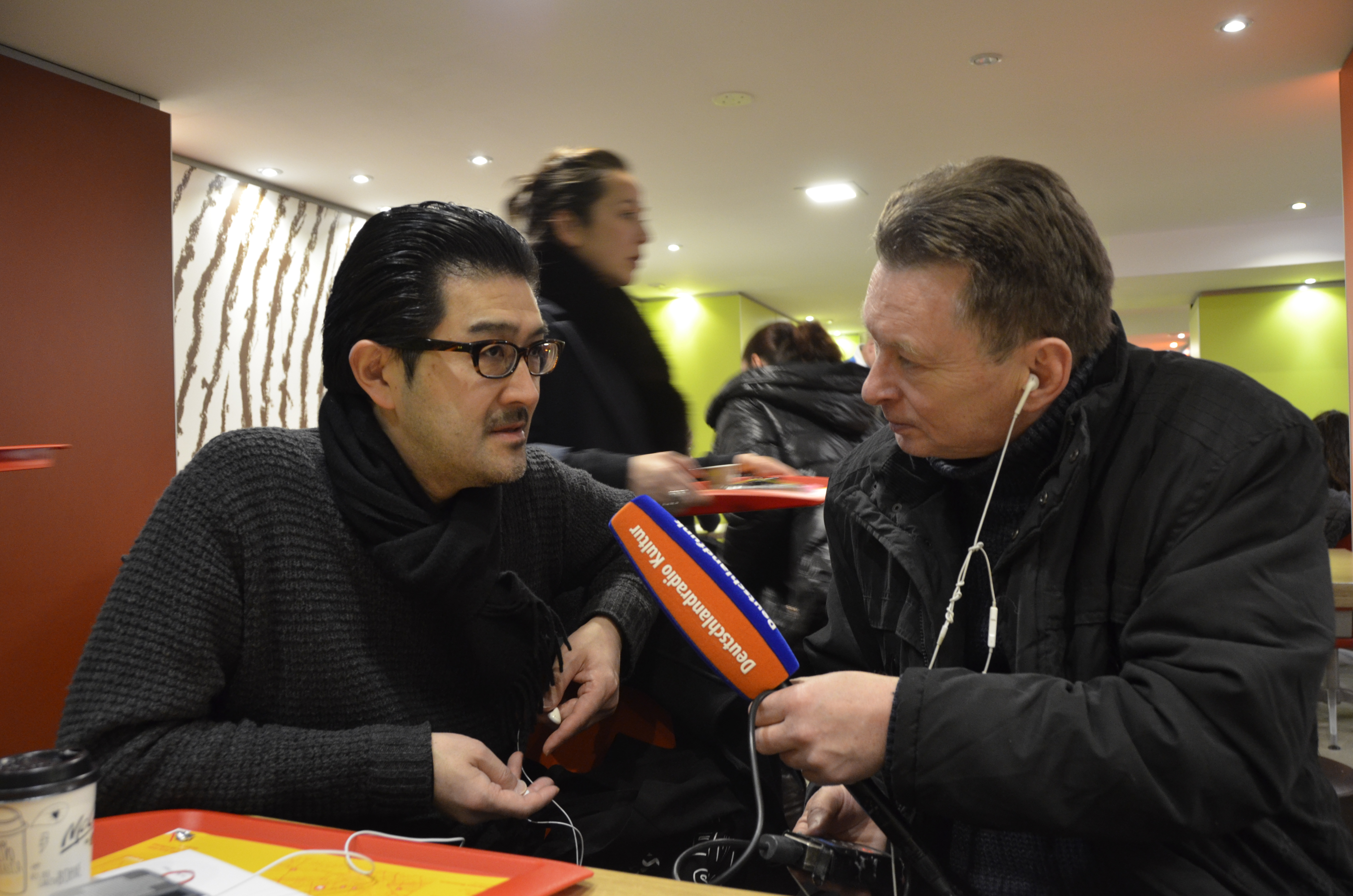 Akira Takayama and Ludger Fittkau during the theatre project McDonald’s Radio University.